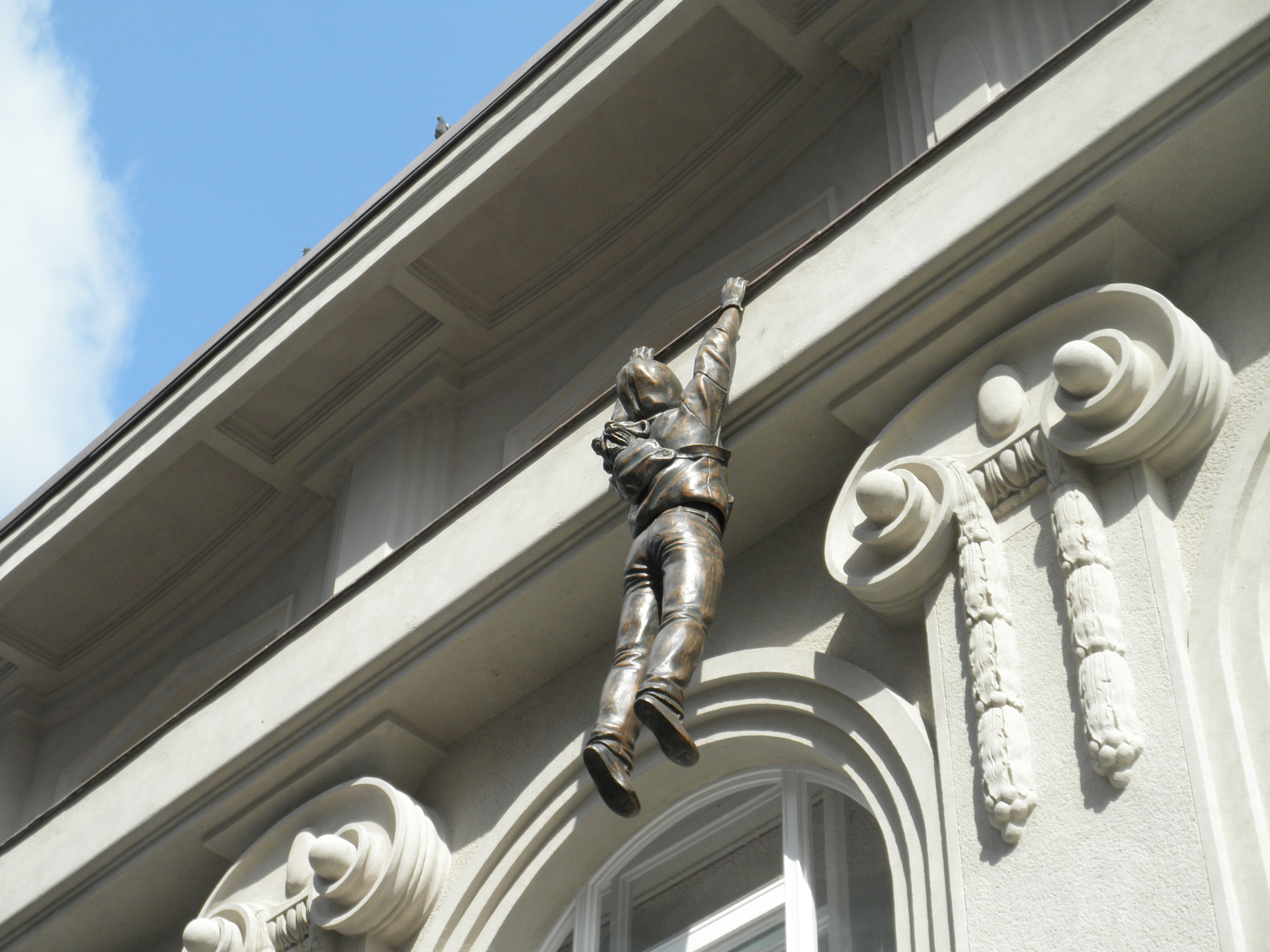 Photo of the staue Thief made by David Černý. The statue was installed on the facade of the Museum of Art in Olomouc at May 19, 2017. It is made of laminate, but it looks like bronze.